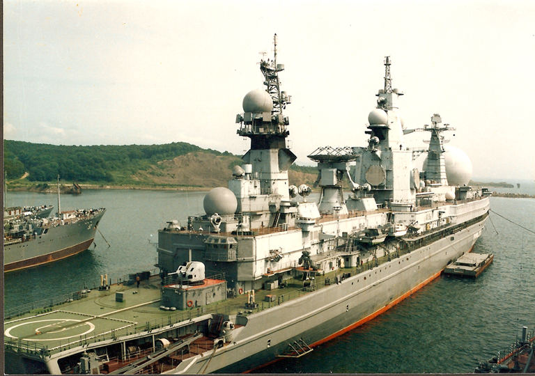 Soviet Command ship Ural (SSV-33)